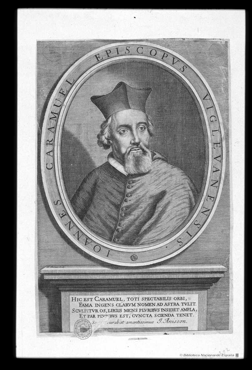 The Spanish philosopher and scholar Juan Caramuel y Lobkowitz (1606–1682).